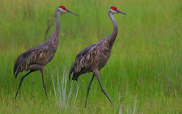 Rain Cranes! Image taken in Central Florida, USA. (-The Sunshine State!)